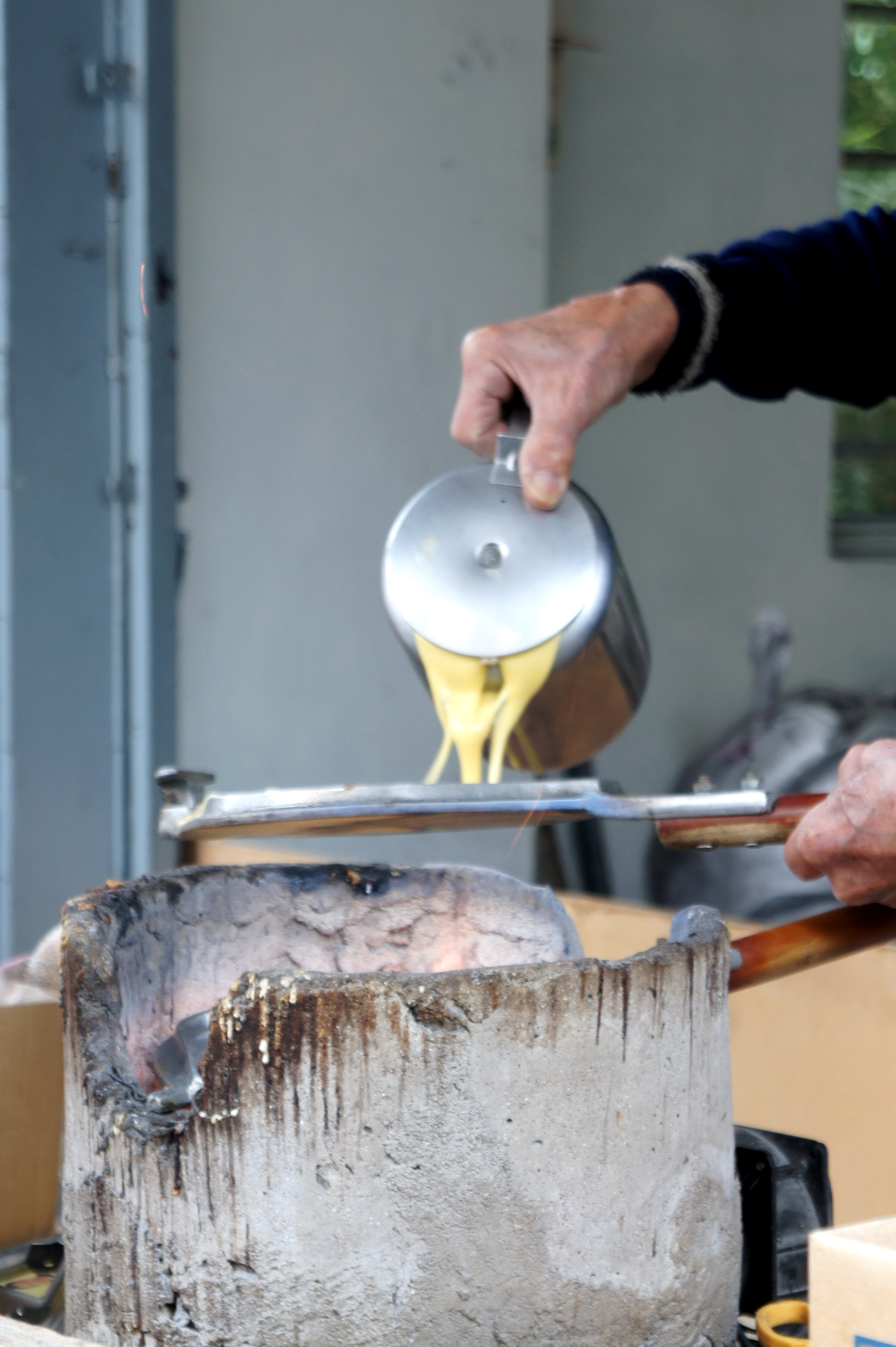 Charcoal Grill Eggette (Hong Kong Style Egg Waffle)